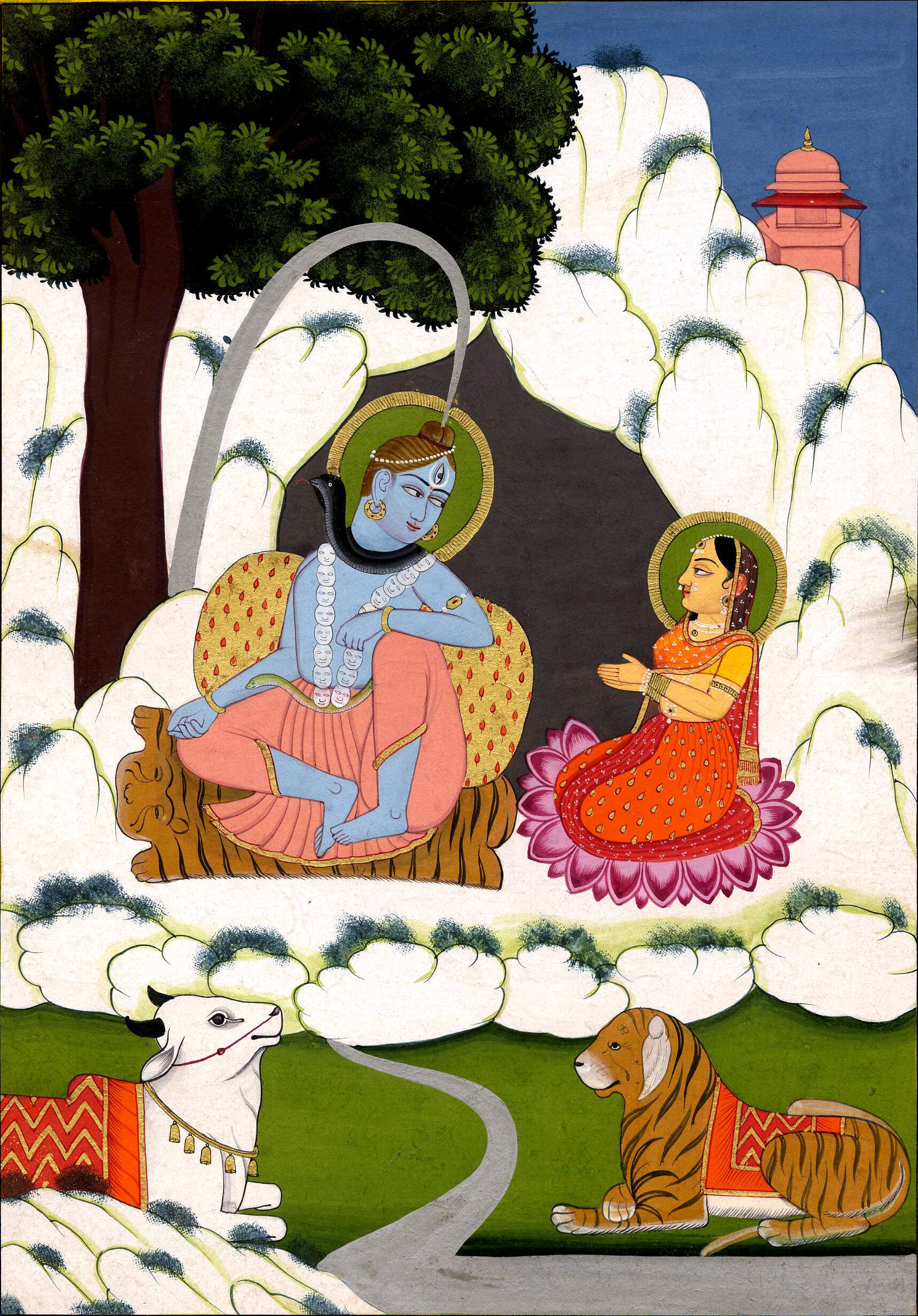 Śiva and Pārvatī on Mount Kailasa. Śiva is seated on a tiger skin, Pārvatī on a lotus flower. Nandi and Pārvatī's tiger mount are positioned in the foreground